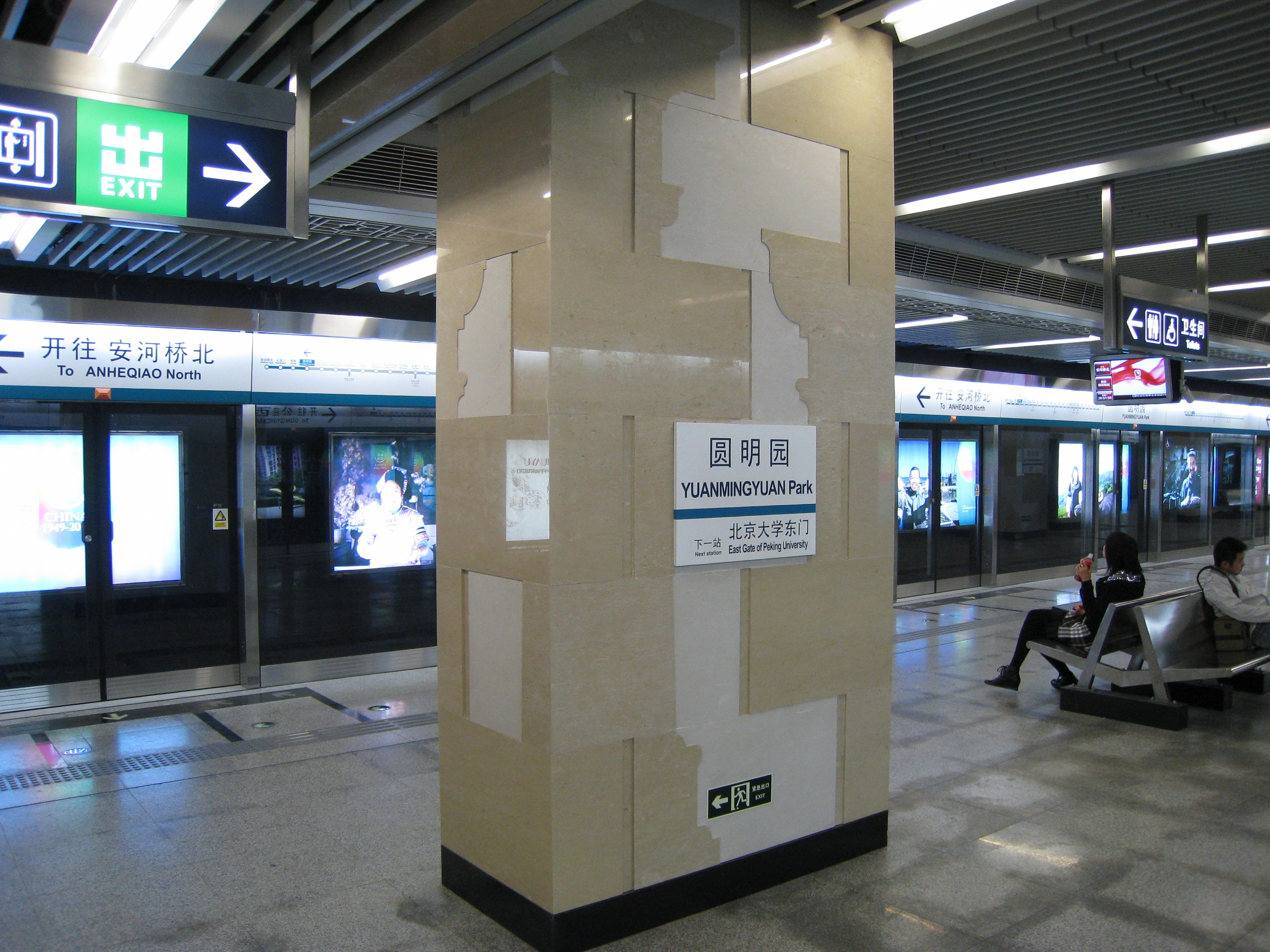 The pillar of Yuanmingyuan Station of Line 4, Beijing Subway, decorated as broken. 中文（中国大陆）: 北京地铁4号线圆明园站的立柱，装饰成破损的样子。